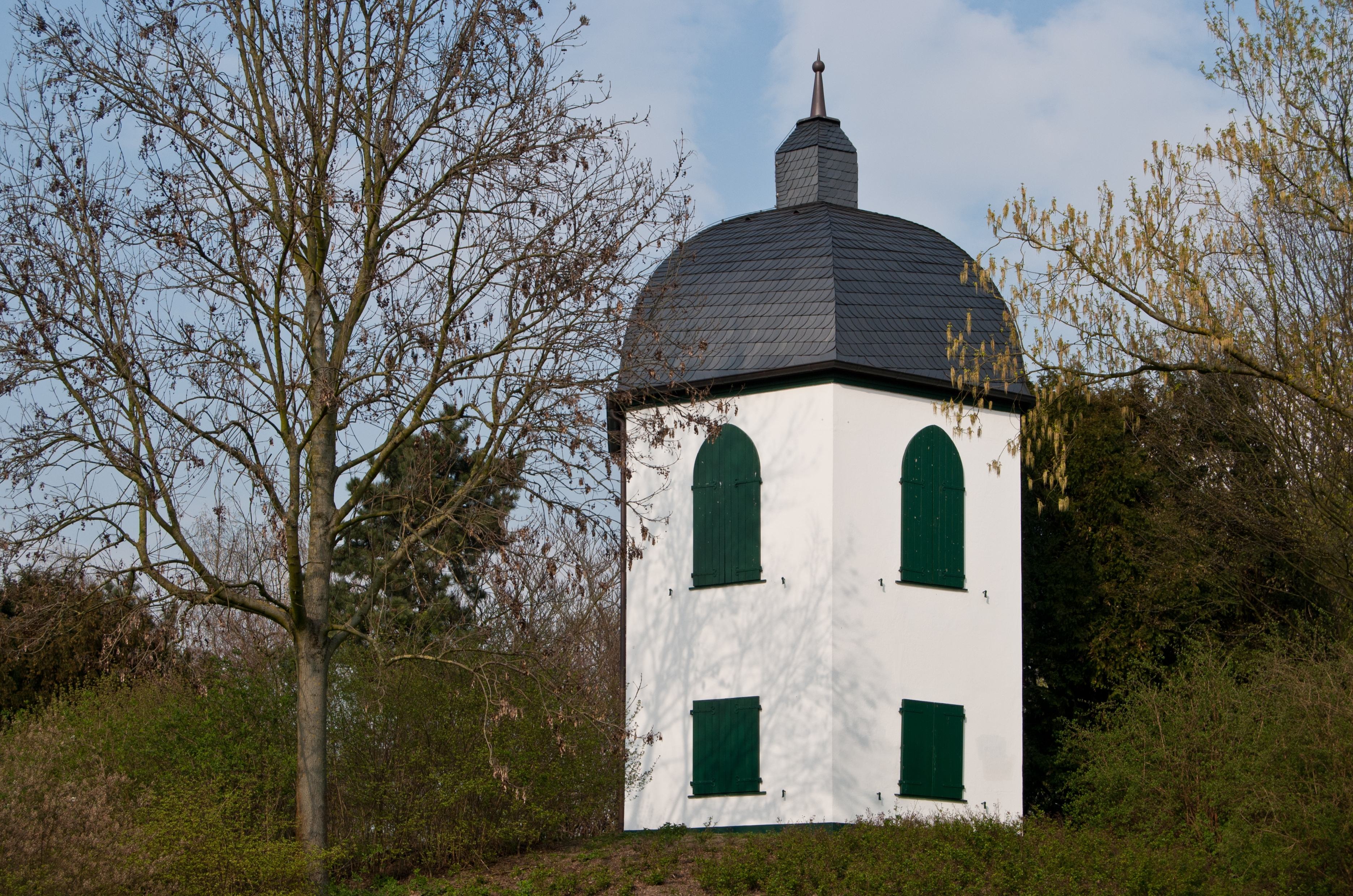 Rheinberg (North Rhine-Westphalia, Germany) – city park – heritage-protected residential tower called Spanischer Vallan This image shows a heritage building in Germany, located in the North Rhine-Westphalian city Rheinberg (no. 18). This photograph was taken with a Nikon D3000